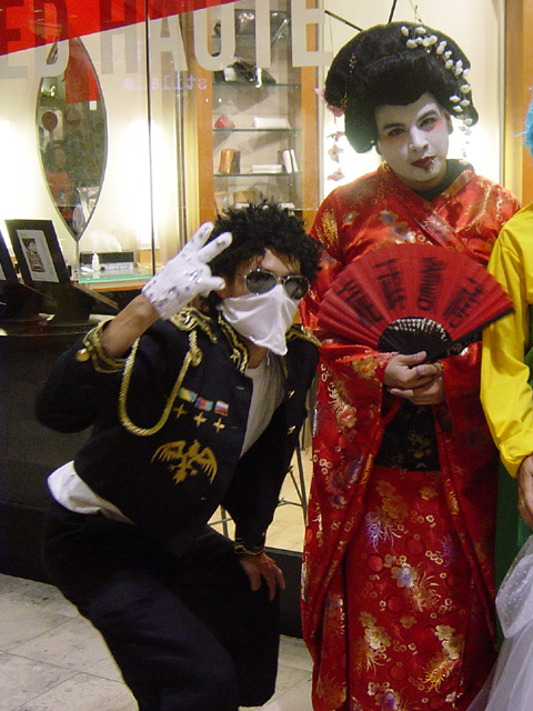 Halloween costumes as seen in a shopping mall in California USA. Michael Jackson look alike and a drag queen geisha.